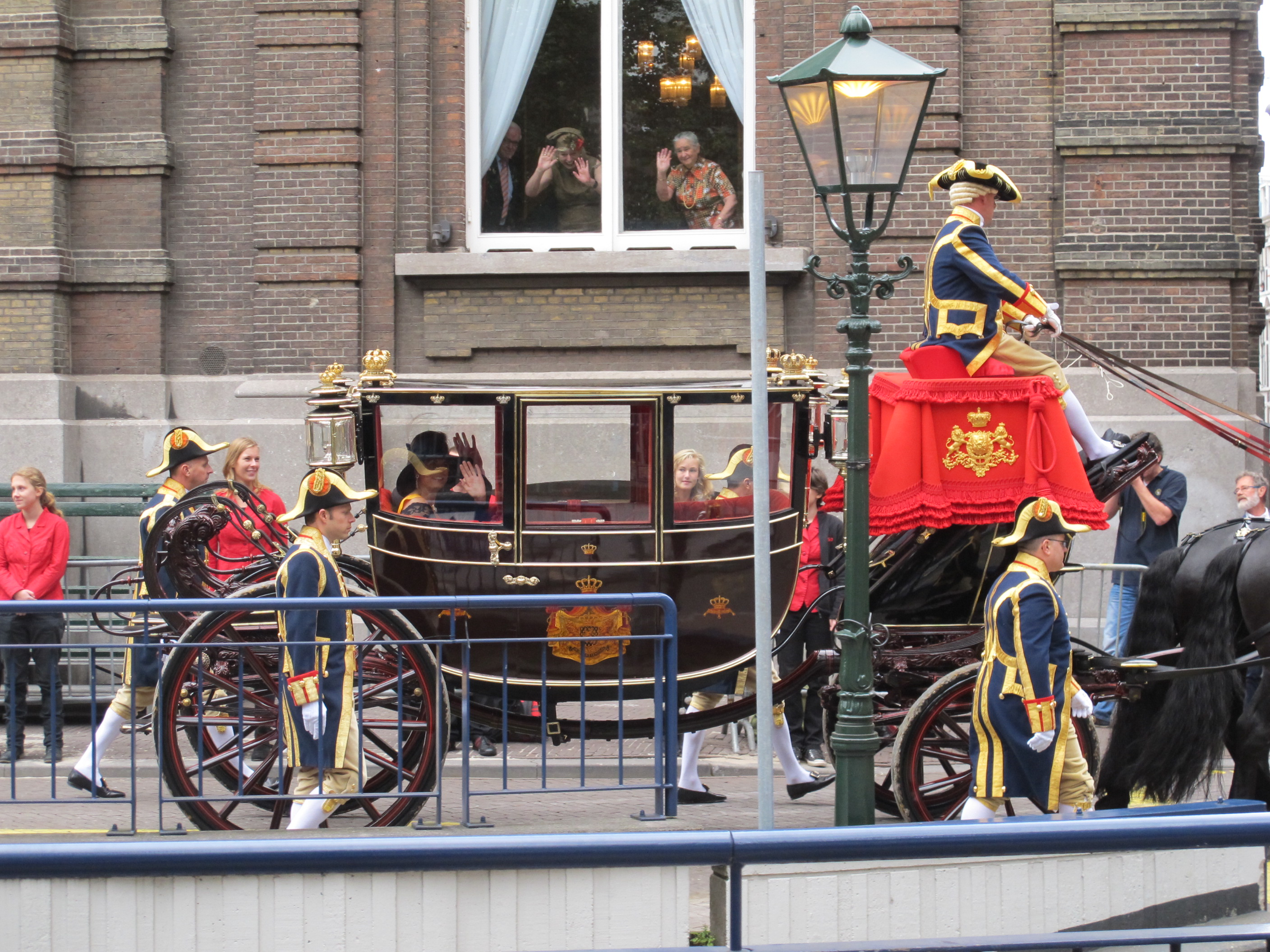 Prinsjesdag 2013, Royal Tour on the way back after the Speech from the Throne. Photos on Plein, The Hague.